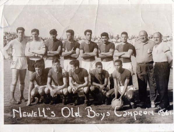 Newell's Old Boys team.